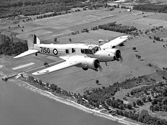 Avro Anson